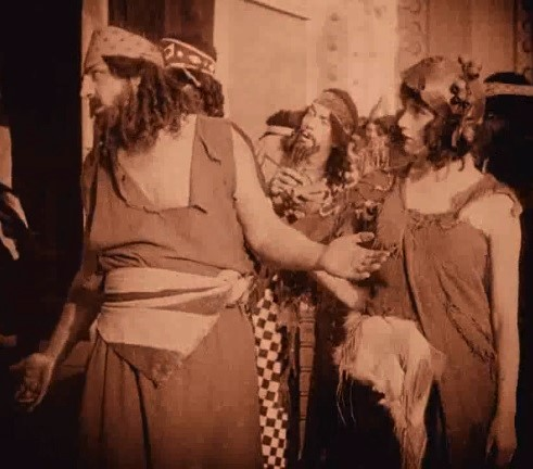 Frank Brownlee and Constance Talmadge in Intolerance - cropped screenshot